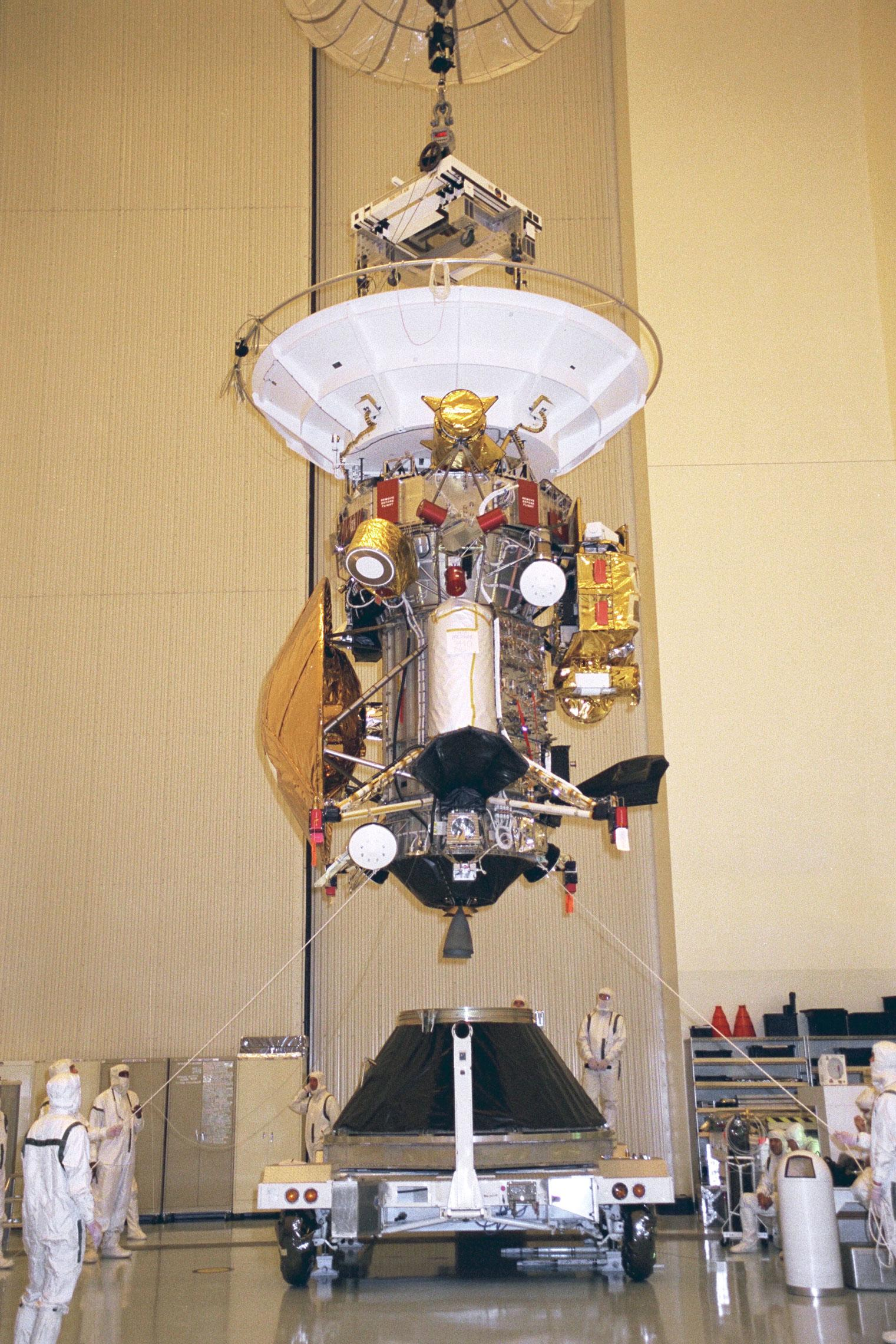 Flight mechanics from NASA’s Jet Propulsion Laboratory (JPL) in Pasadena, Calif., lower the Cassini spacecraft onto its launch vehicle adapter in KSC’s Payload Hazardous Servicing Facility. The adapter will later be mated to a Titan IV/Centaur expendable launch vehicle that will lift Cassini into space. Scheduled for launch in October, the Cassini mission, a joint US-European four-year orbital surveillance of Saturn's atmosphere and magnetosphere, its rings, and its moons, seeks insight into the origins and evolution of the early solar system. It will take seven years for the spacecraft to reach Saturn. JPL is managing the Cassini project for NASA